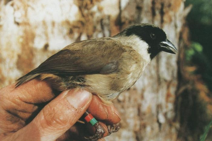 Photos credit: Paul E. Baker/USFWS (U.S. Fish and Wildlife Service)